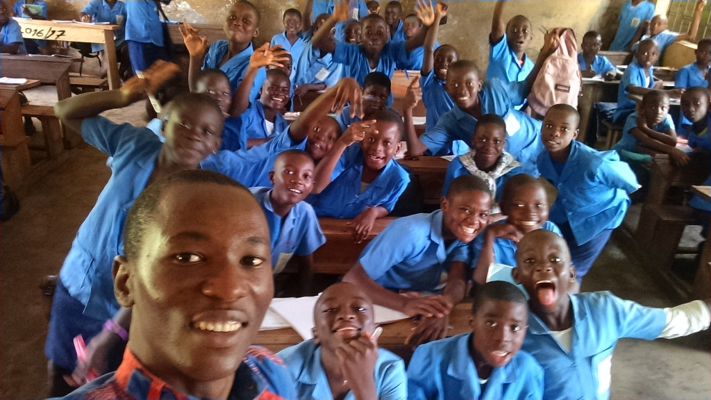 This shows form 2 computer science students in class learning about modern technologies This is an image of "African people at work" from Cameroon